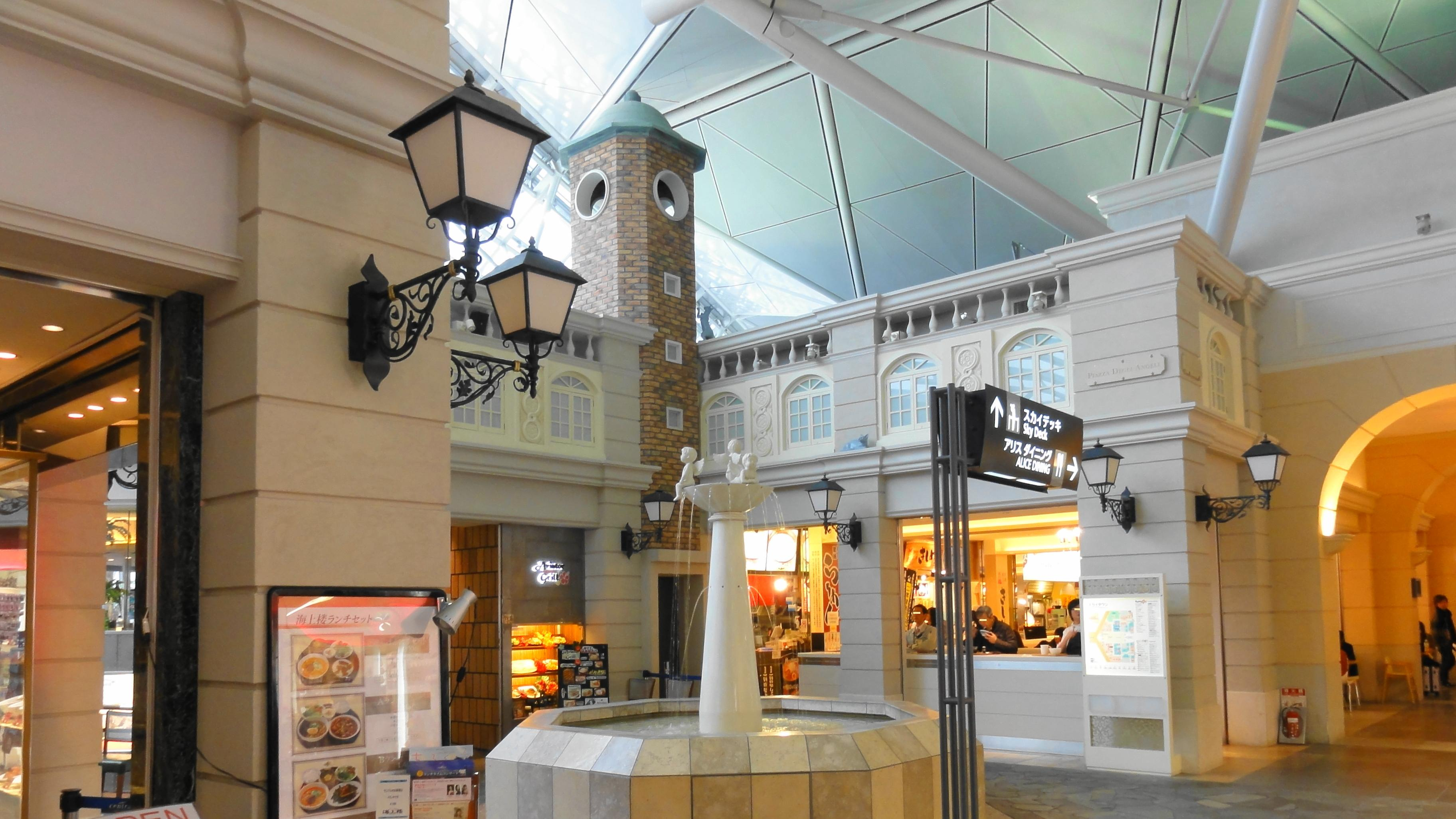 Renga-dori in Central Japan International Airport,Aichi Prefecture, Japan